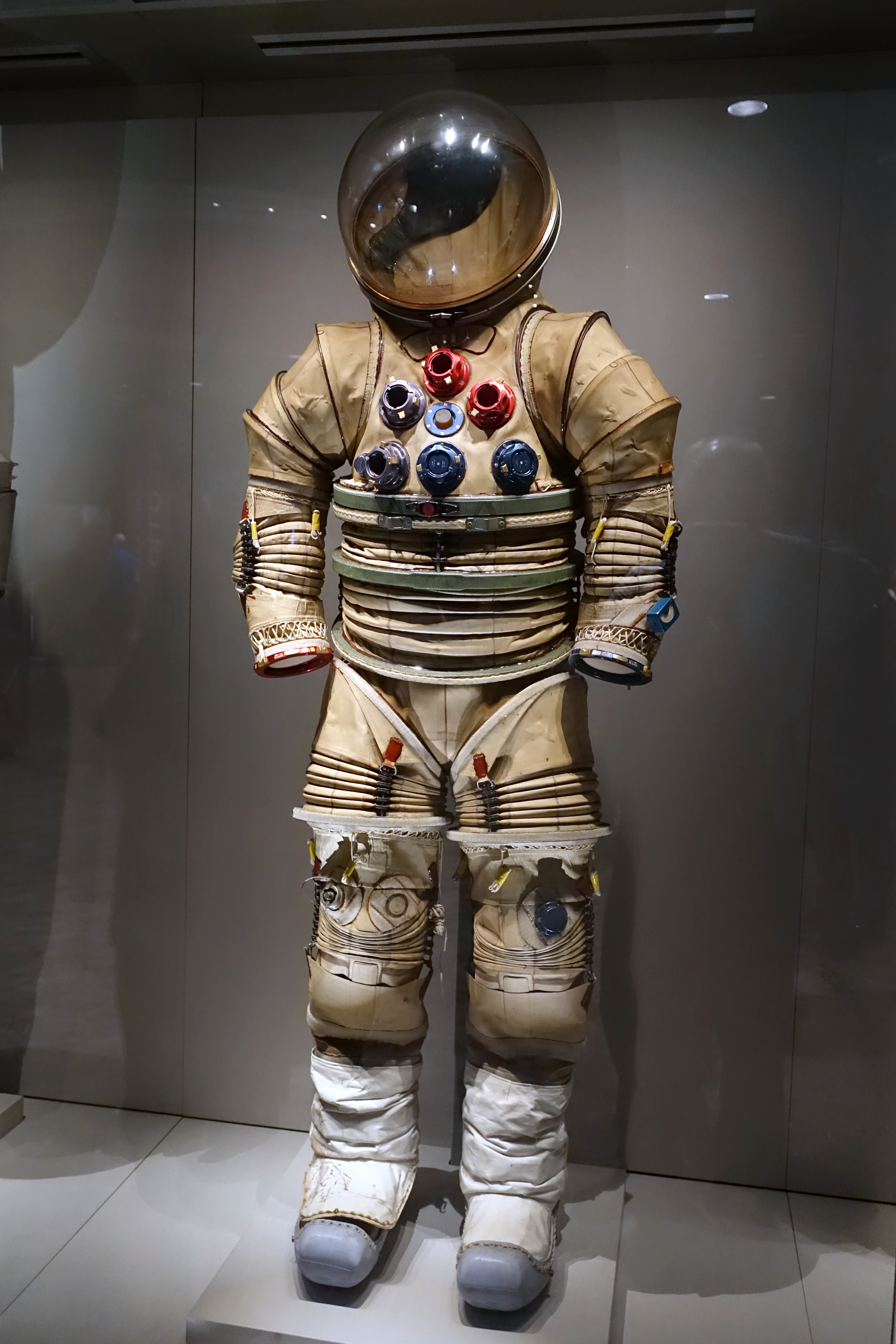 Exhibit at the Kennedy Space Center - Cape Canaveral, Florida, USA.